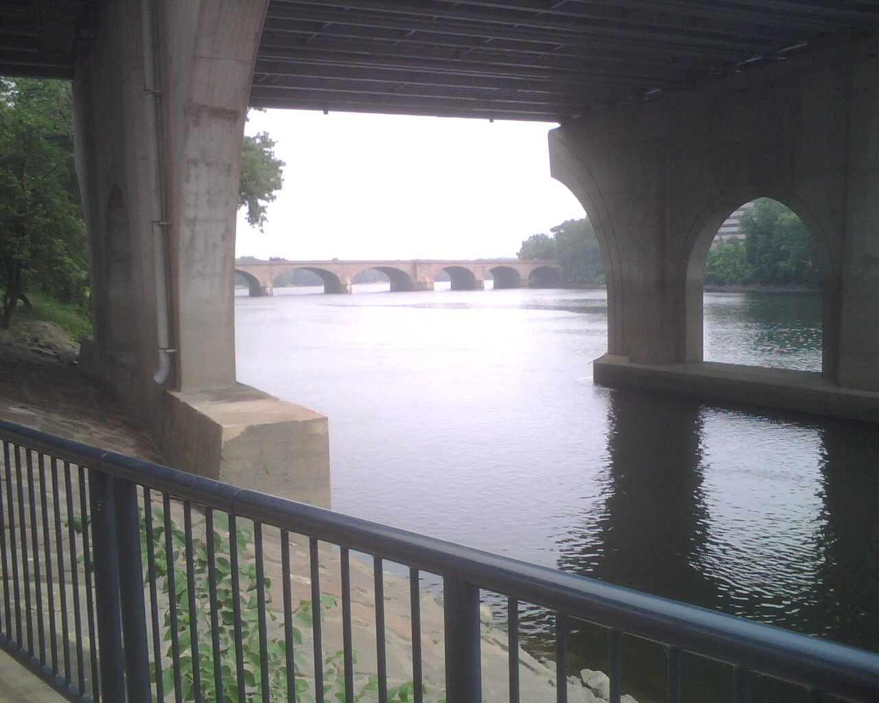 Hartford, Connecticut is right on the Connecticut River. Which us ignorant tourists didn't know and had to look up what river it was. :-)